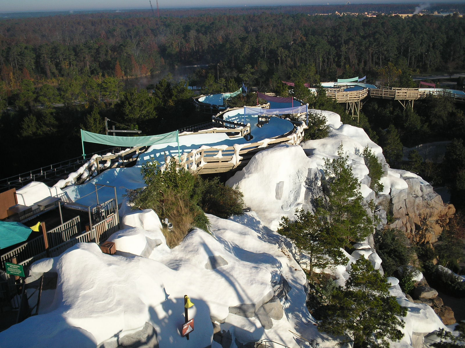 An overview of Blizzard Beach's "Team Boat Springs" family raft slide.